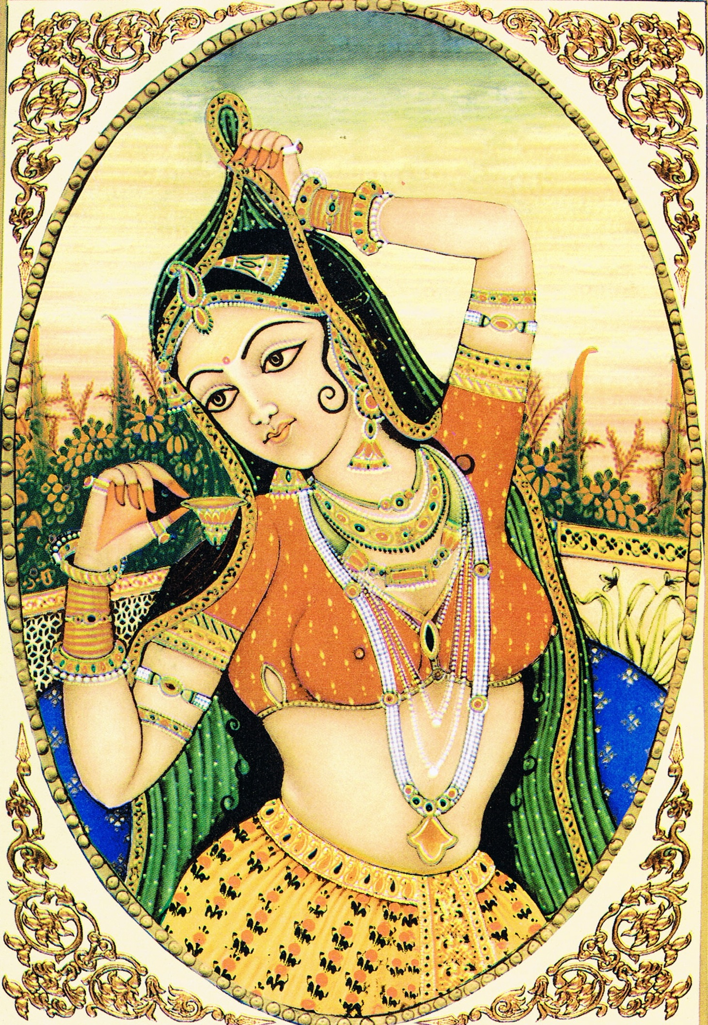 Rajasthani Miniature painting